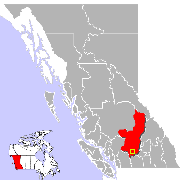 Merritt, British Columbia location.